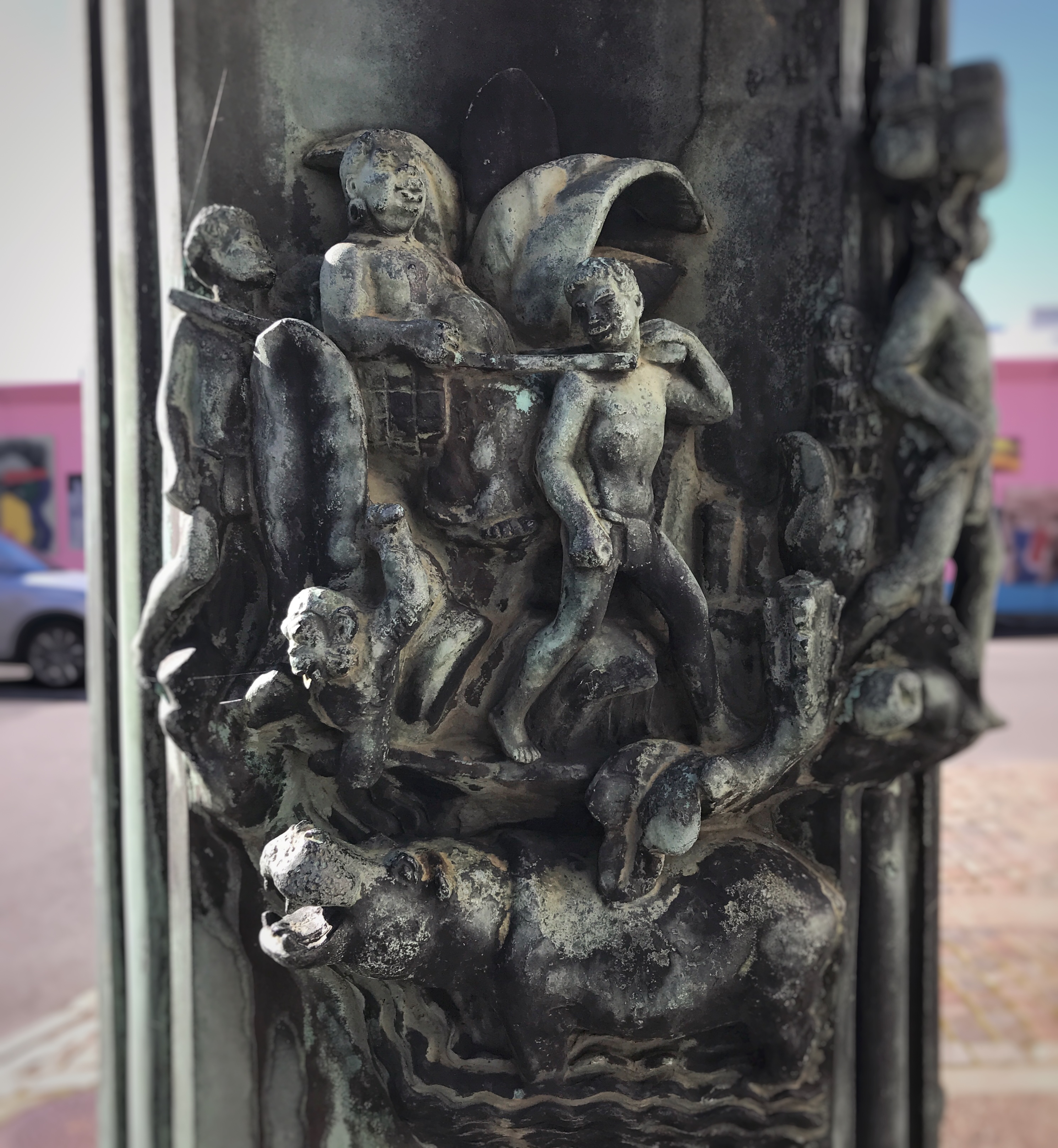 Detail of flaggpole from 1960 at Packhusplatsen, by the sculptore Arvid Bryth (1905-1997).